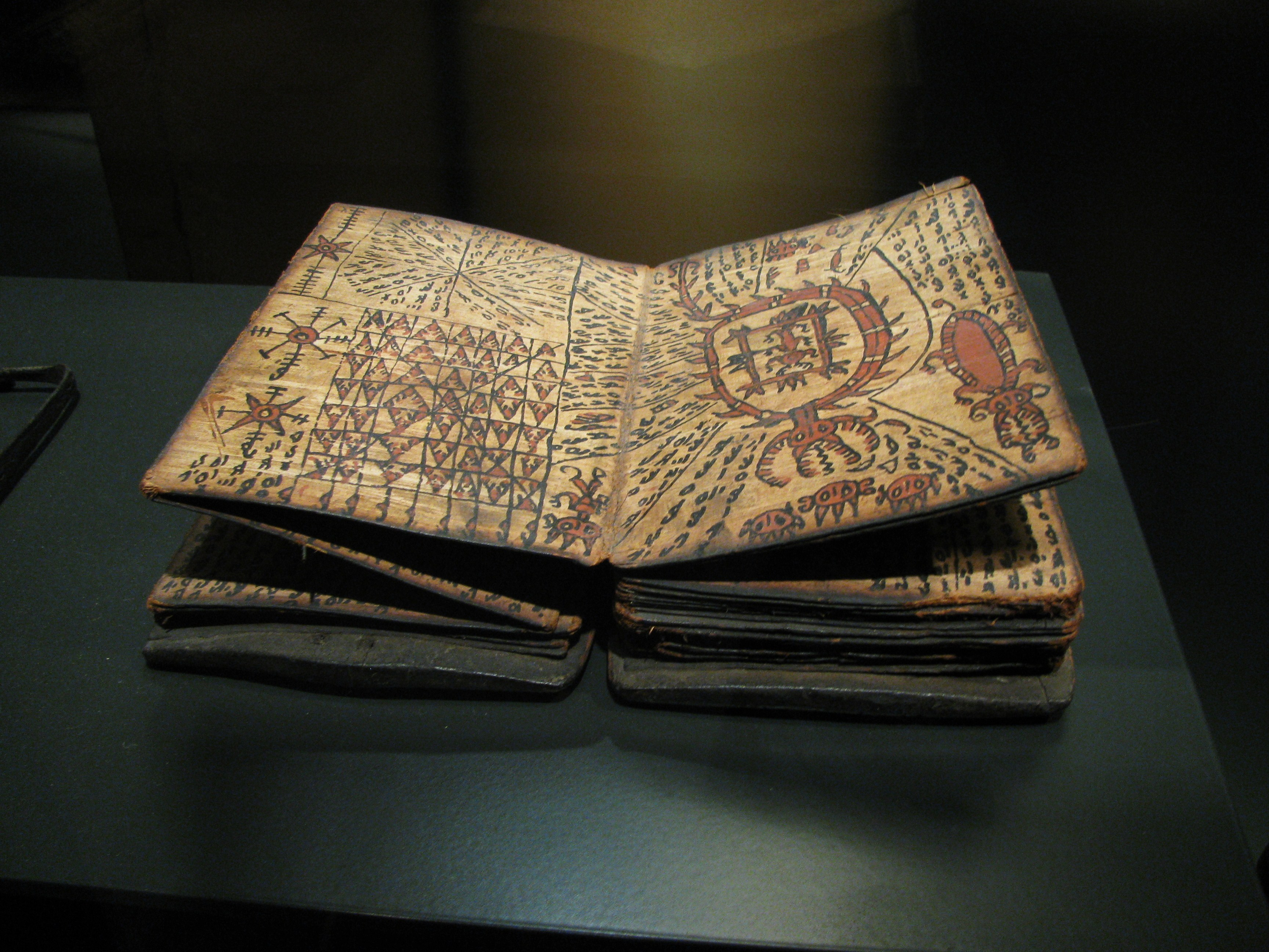 Magic book, used by wizards of the Toba Batak tribe, North Sumatra, Indonesia. State Museum of Ethnology, Leiden, The Netherlands